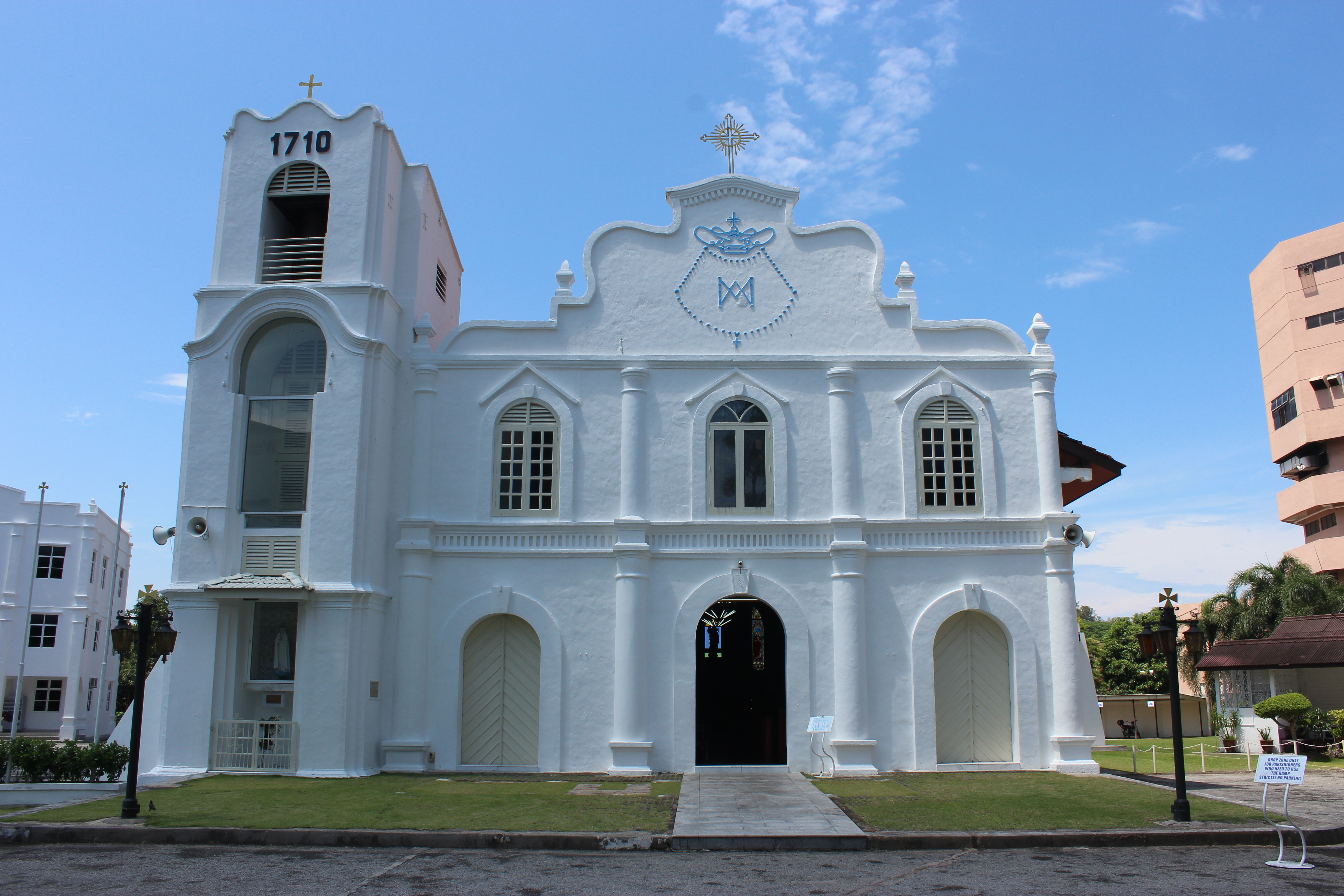 St. Peter's Church, Melaka in 2017